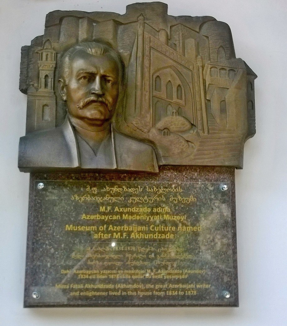 Akhundov House - Museum of Azerbaijani Culture in Tbilisi, memorial plaque